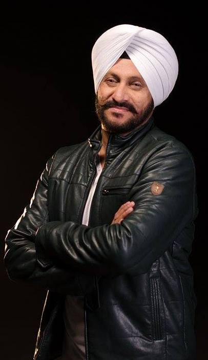 Harinder Sohal Punjabi language background singer,Punjab,India